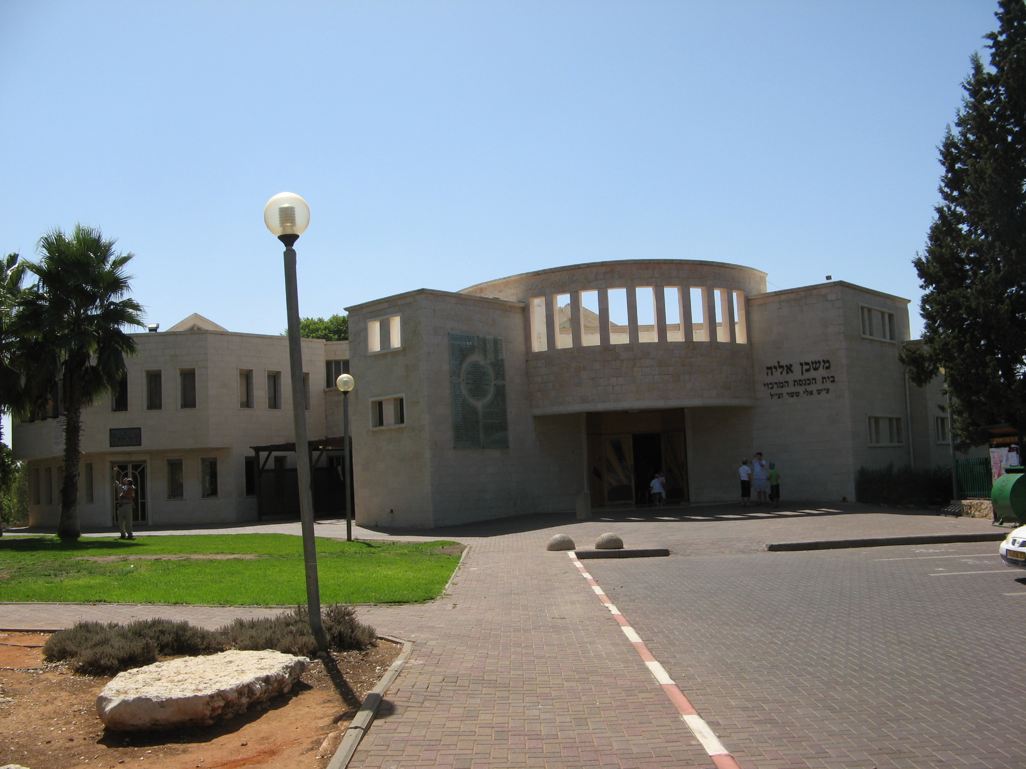 Central Shool in Karnei Shomron